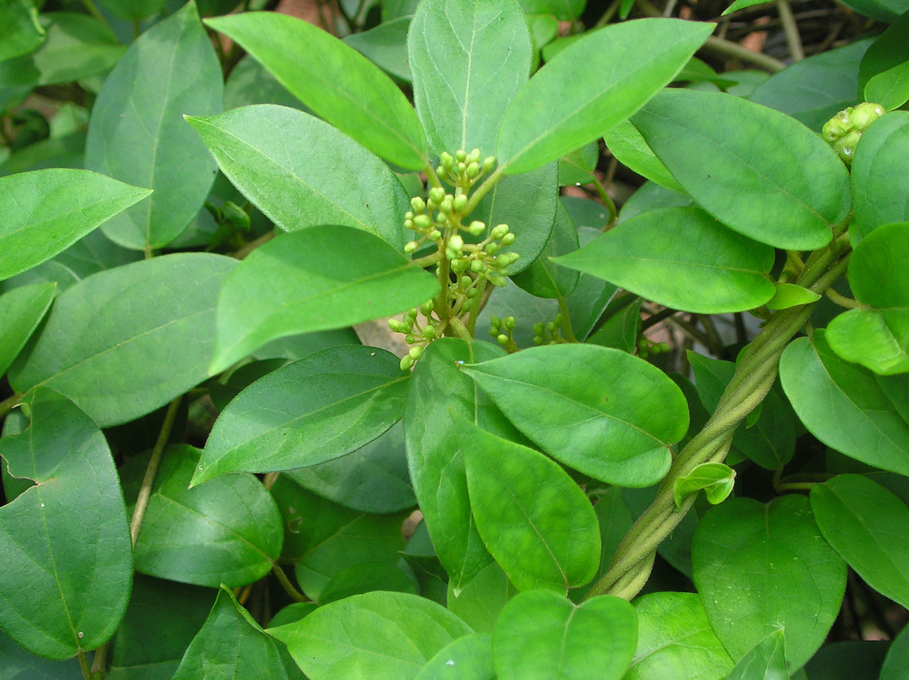 Family: Asclepiadaceae Distribution: Common and gregarious on hedges and bushes. Tropical Africa and Peninsular India & Sri Lanka. Description: Large much branched twining shrubs; branchlets pubescent. Leaves 3-5x1.5-3cm, ovate-elliptic, base obtuse, apex acute, pubescent along nerves beneath. Flowers 3-4mm across, greenish yellow, spirally arranged in lateral corymbose cymes. Follicles 6-7 cm long, linear, inflated in the middle, beaked at apex. Vernacular name in Telugu: Podapatri. Leaves when chewed neutralizes the taste of sugar. Leaves are used as remedy for diabetes, cough and biliousness. One leaf per day is recommended for diabetics in ehnomedicine. I am not sure weather it cures diabetes or not. Because of numbness of tongue we couldnot relish sweet taste. Photographed at Eastren ghats of Nellore district, India. Reference: Flora of Presidency of Madras, Gamble J.S; FBI